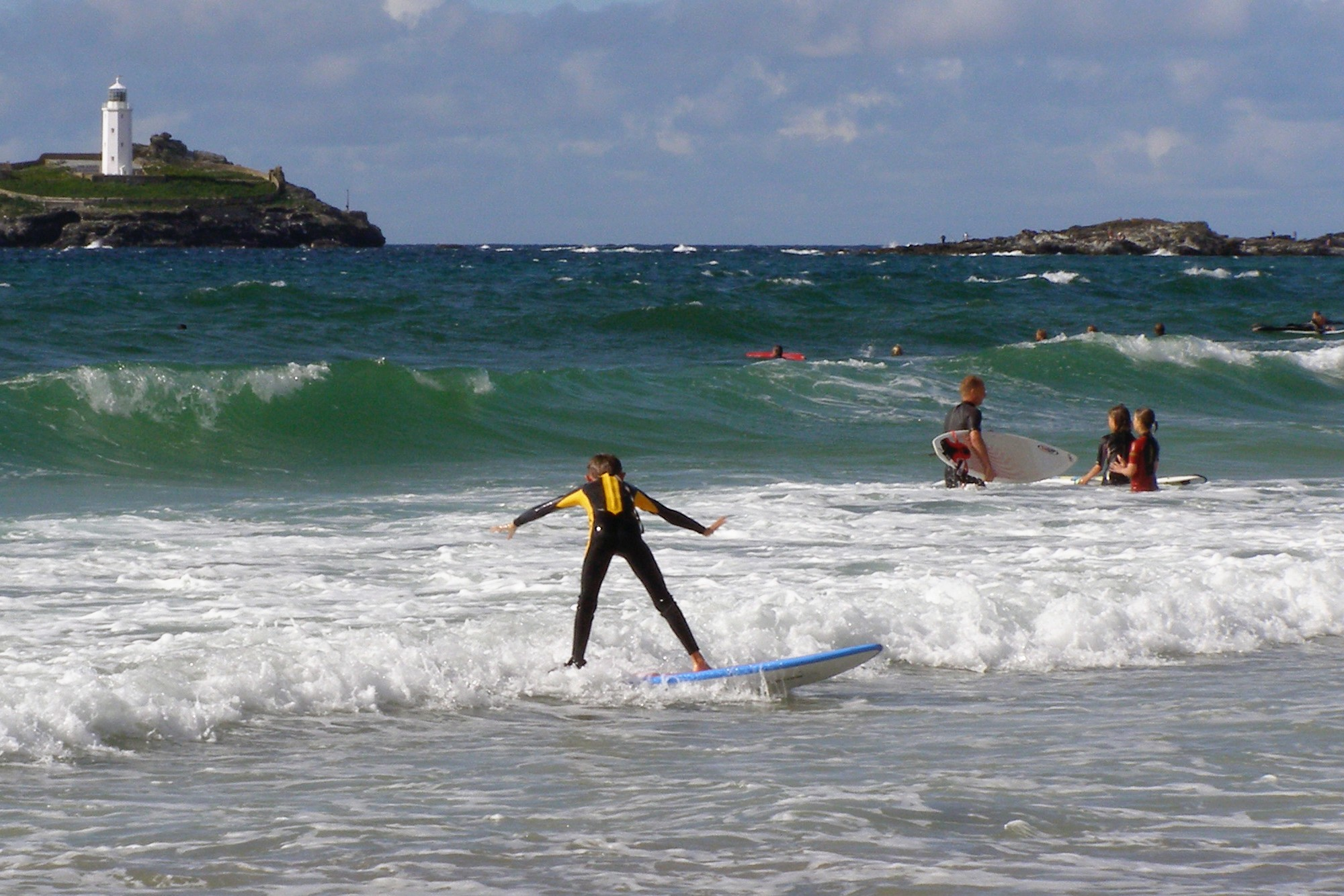 Surfing at Gwithian Sands, Cornwall, United Kingdom